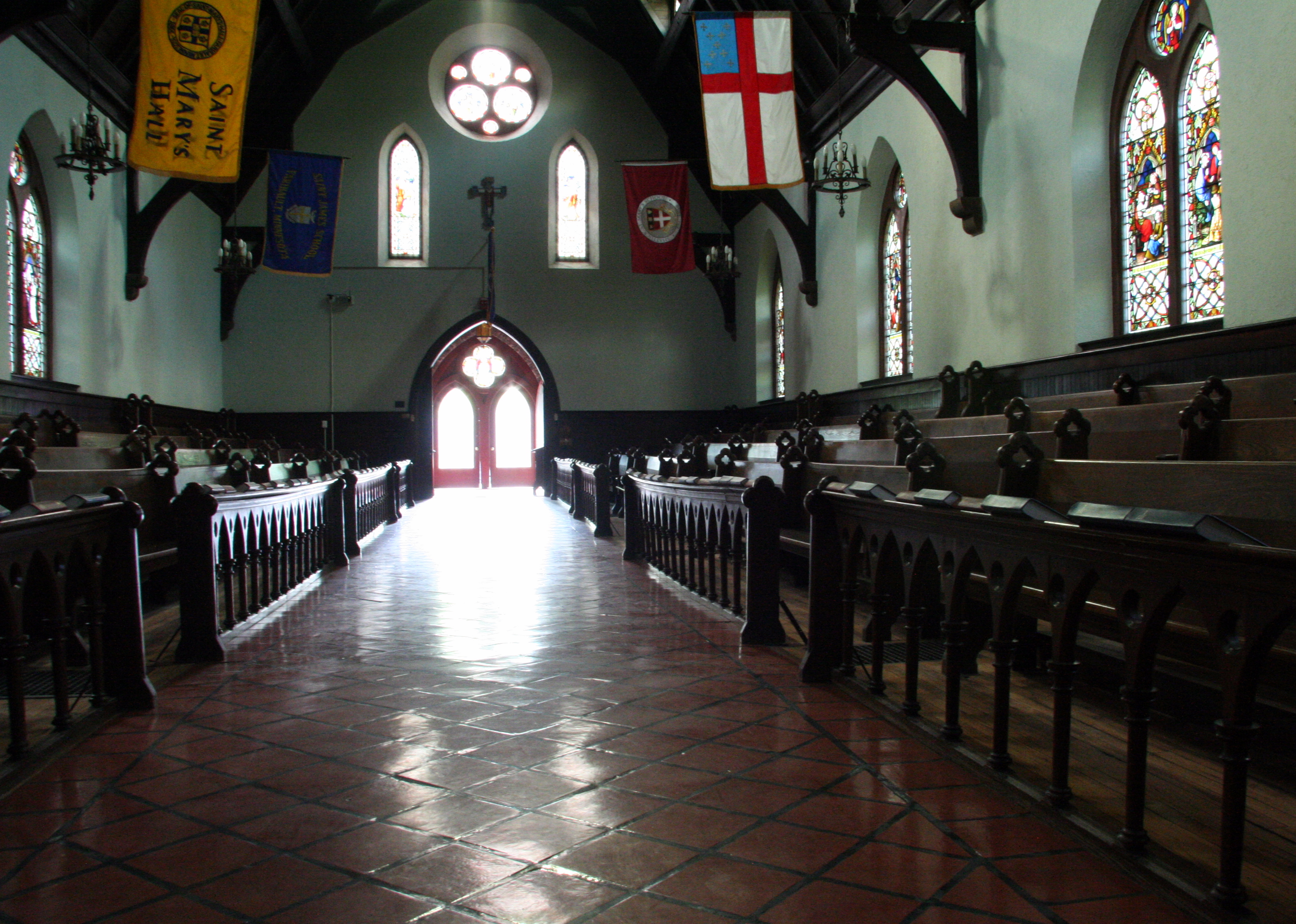 Nave of the Chapel of the Good Shepherd on the campus of Shattuck-St Mary's School in Faribault, Minnesota, United States